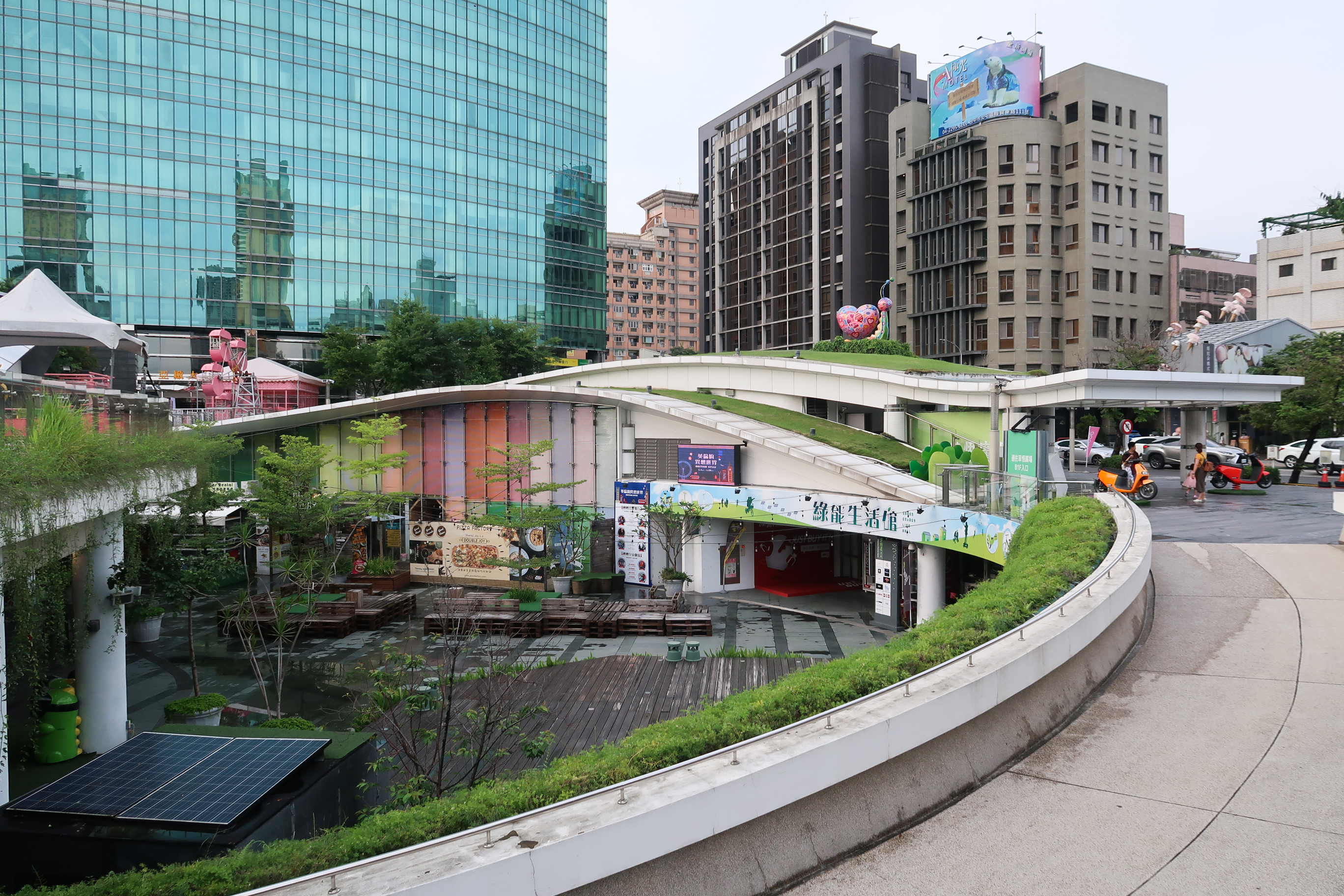 Caowu Square, Taichung